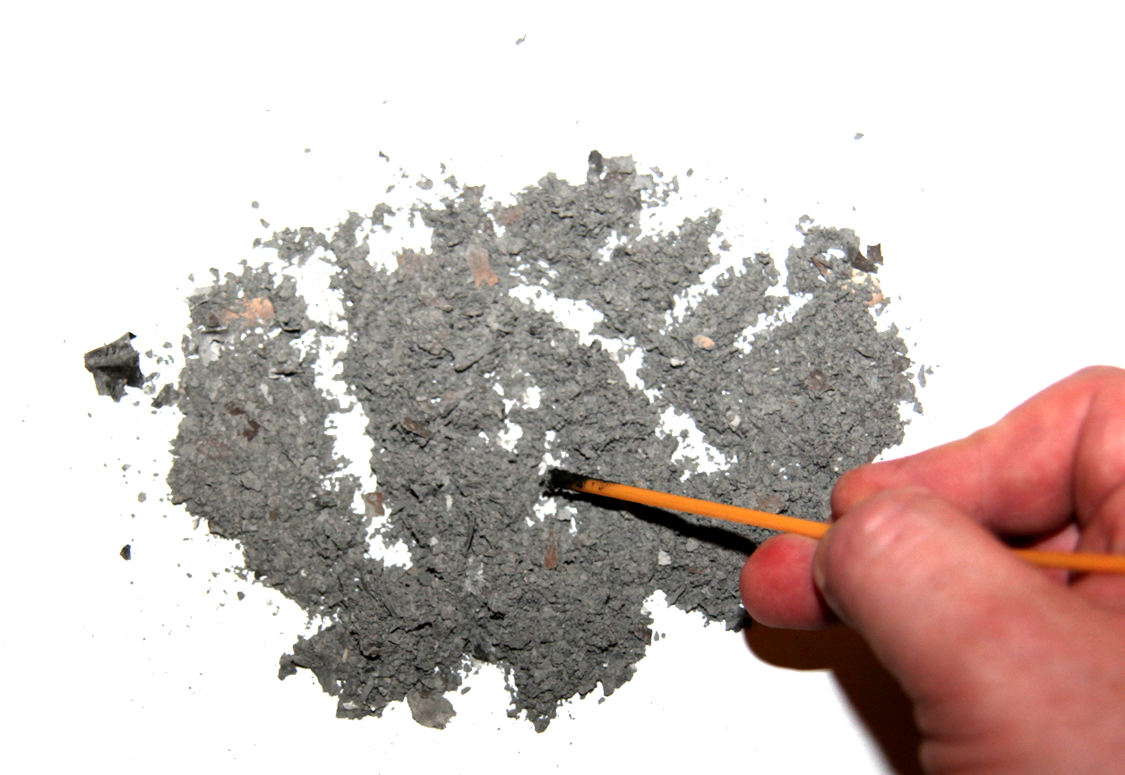 An individual practicing spodomancy, or divination using ashes. These ashes have been placed on white paper, and the individual is making random marks in the ashes which may be interpreted for omens and portents.